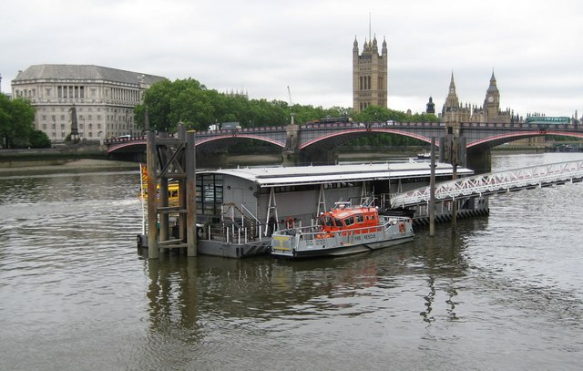 Lambeth River Fire Station This pier, just upstream of Lambeth Bridge, is the main operating base of the London Fire Brigade's river division. It is accessed by the gangway off Albert Embankment. Moored at the base is the 'Firedart', a fireboat that is used for a variety of types of river incidents, including rescuing people stranded in the river, fires on boats, crashed boats, and riverside property on fire. Lambeth Bridge and the Houses of Parliament are in the background.